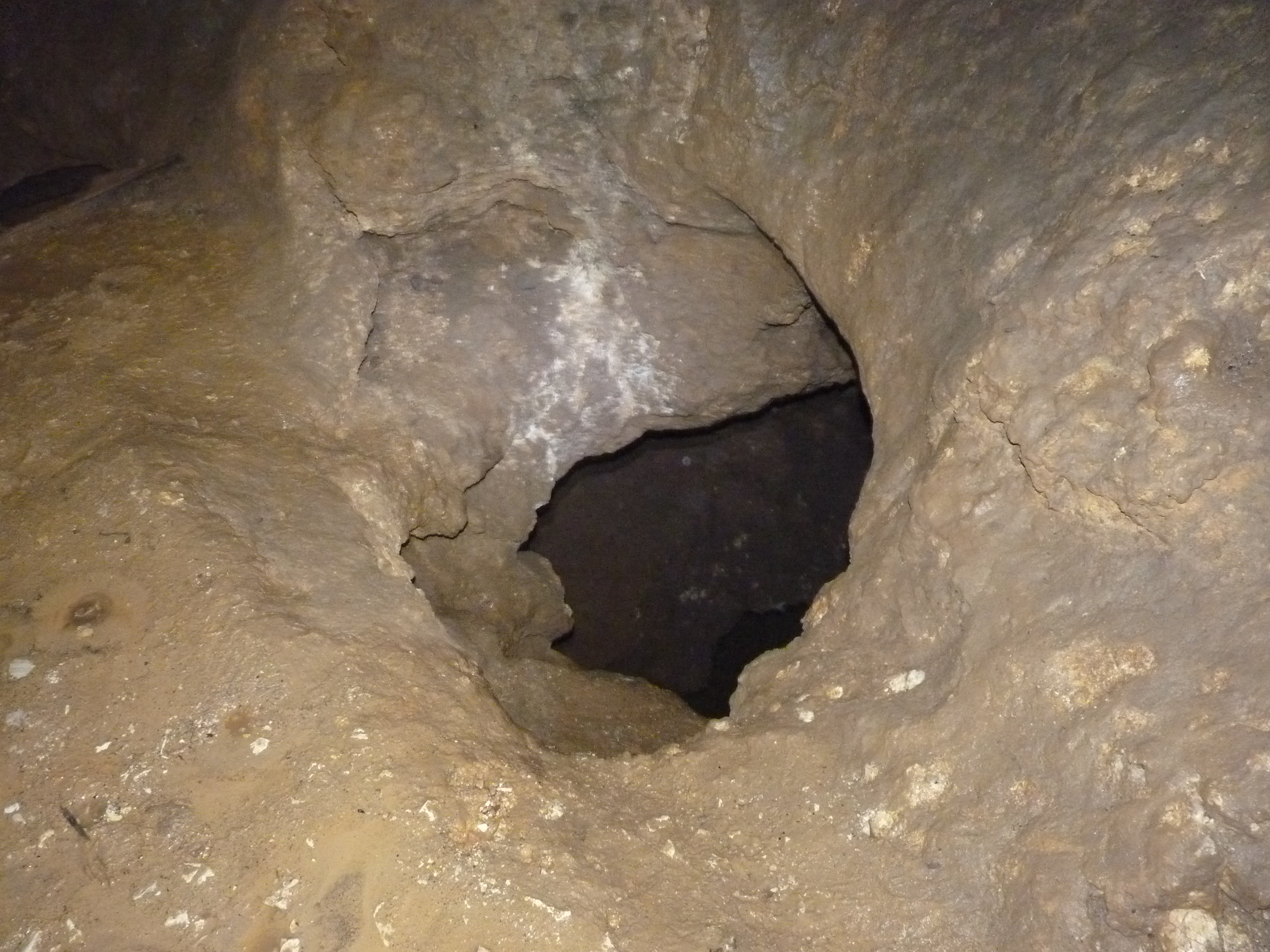 Bátori Cave, passage from the Entrance Hall (Bejárati terem) to the right towards Pyramid Section (Piramis-szakasz)